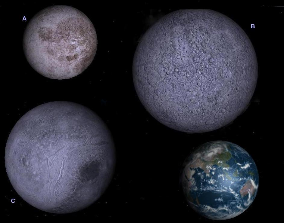 Pulsar PSR B1257+12 currently has three confirmed planets. But because they were discovered before the modern naming of extrasolar planets became common, the planets were named in order from the star and with uppercase letters.